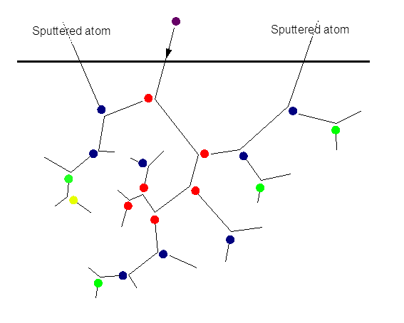 Illustration of sputtering from a linear collision cascade